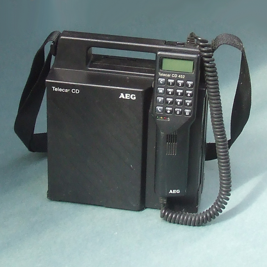 AEG Telecar CD 452, a mobile phone from the 1980ies